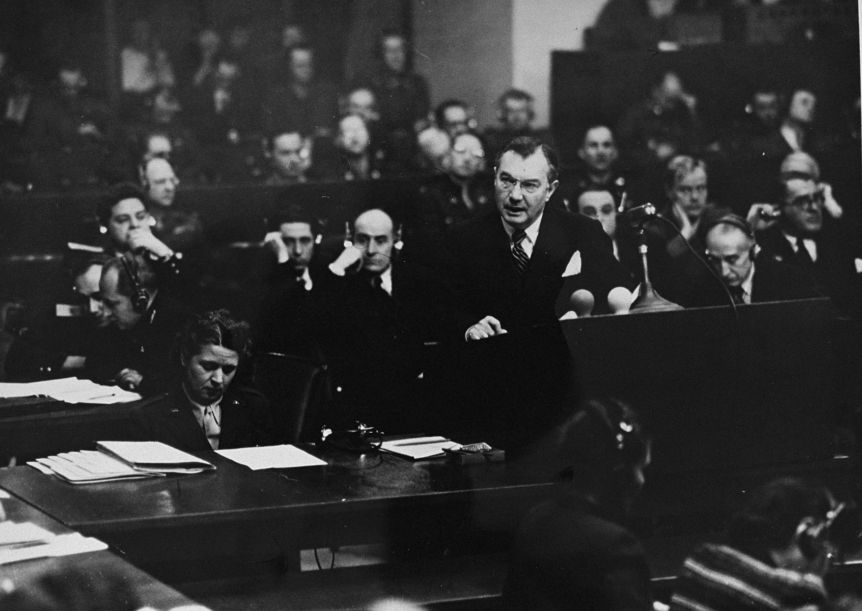 see title